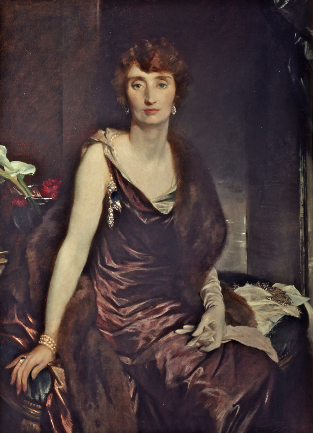 Philpot, Glyn Warren; The Marchioness of Carisbrooke (1890-1956); Lady Lever Art Gallery